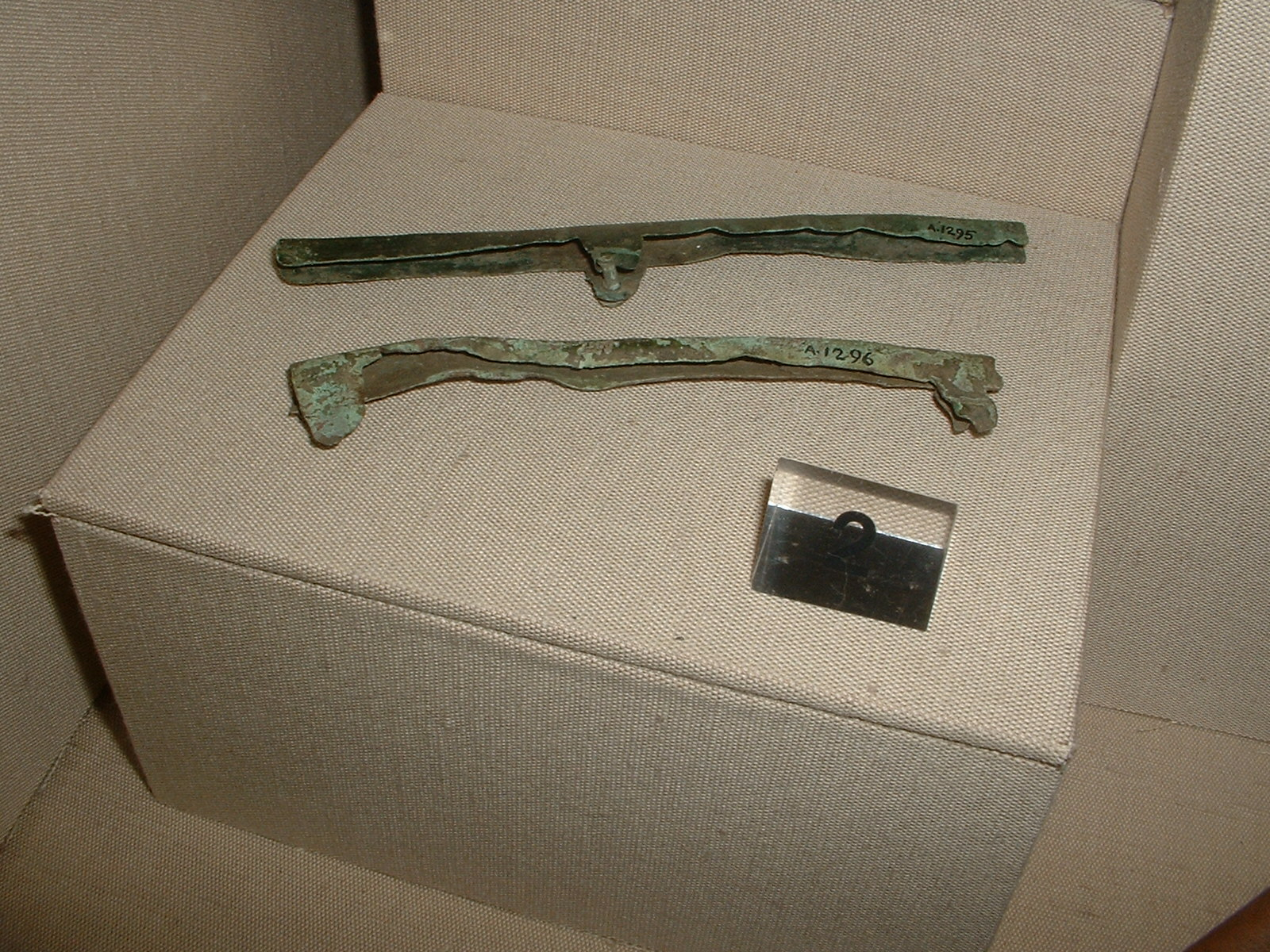 Bronze edge from a Roman scutum (shield). Photograph was taken in the Somerset County Museum in Taunton on 29-Oct-05.